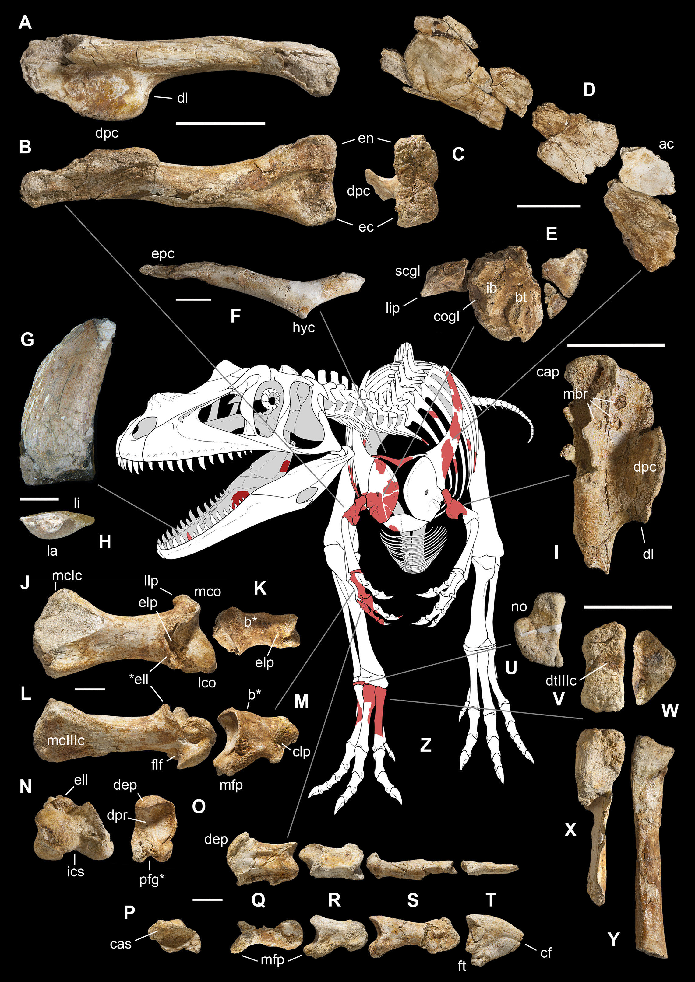 Selected elements used in the diagnosis of Saltriovenator zanellai n. gen. n. sp. Right humerus in medial (A), frontal (B) and distal (C) views; (D) left scapula, medial view; (E) right scapular glenoid and coracoid, lateral view; (F) furcula, ventral view; tooth, labial (G) and apical (H) views; (I) left humerus, medial view; right second metacarpal in dorsal (J), lateral (L) and distal (N) views; first phalanx of the right second digit in dorsal (K), lateral (M) and proximal (O) views; (P–T) right third digit in proximal, dorsal and lateral views; (U) right distal tarsal IV, proximal view; third right metatarsal in proximal (V) and frontal (X) views; second right metatarsal, proximal (W) and frontal (Y) views; (Z) reconstructed skeleton showing identified elements (red). Abbreviations as in text, asterisks mark autapomorphic traits. Scale bars: 10 cm in (A)–(E), (I), and (U)–(Y); two cm in (F), and (J)–(T); one cm in (G).